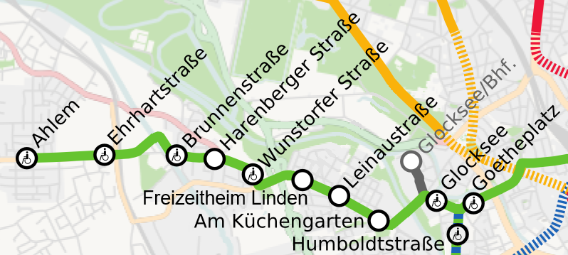 Light rail of Hannover, Germany. D West